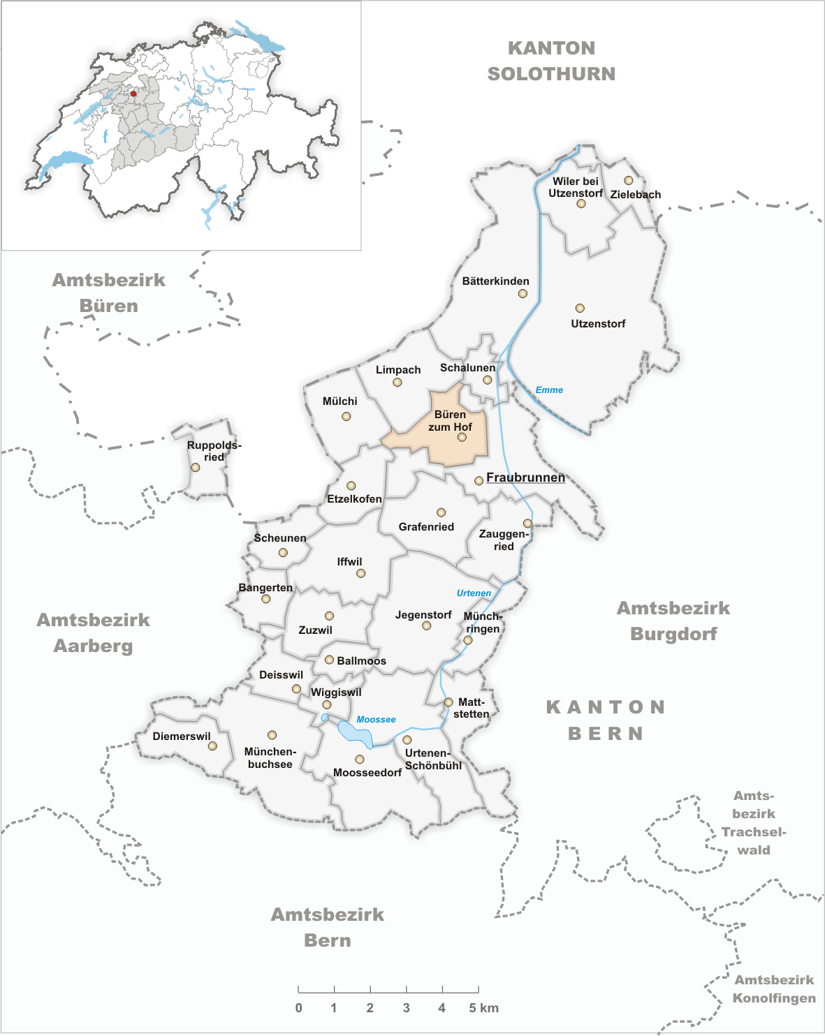 Municipality Büren zum Hof